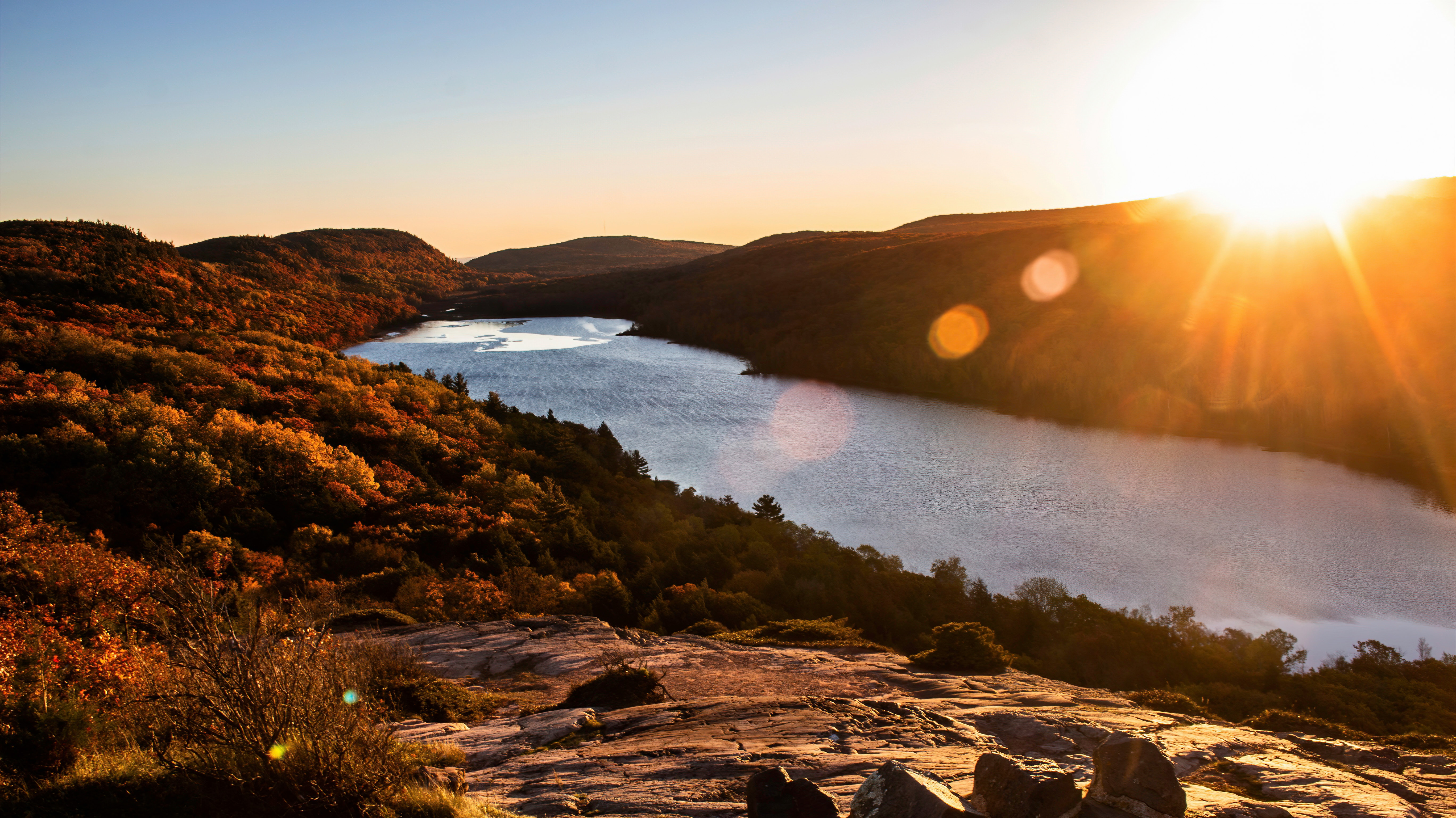 Lake of the Clouds in fall color